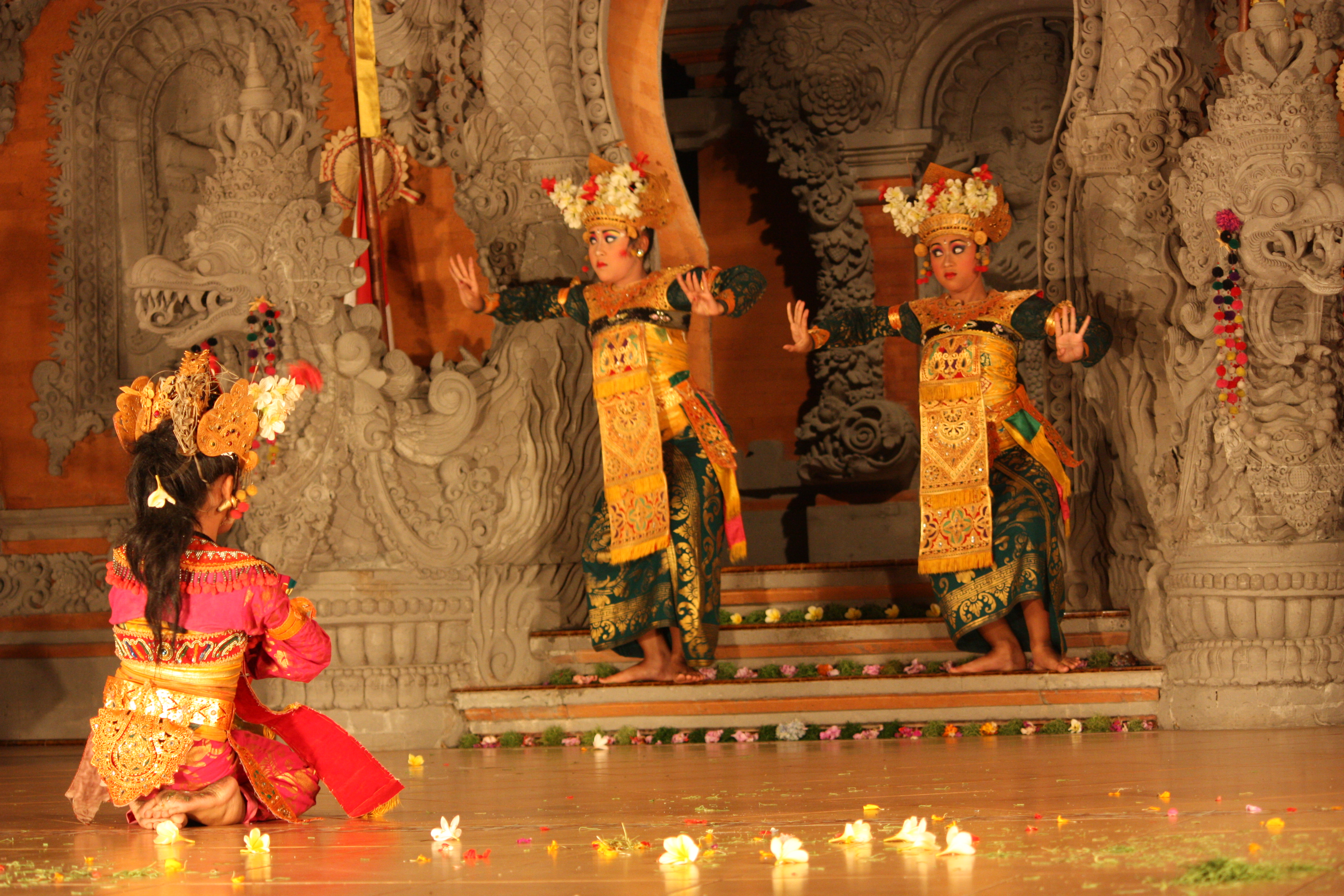 Ubud, Legong dance, the two Legongs and the Condong